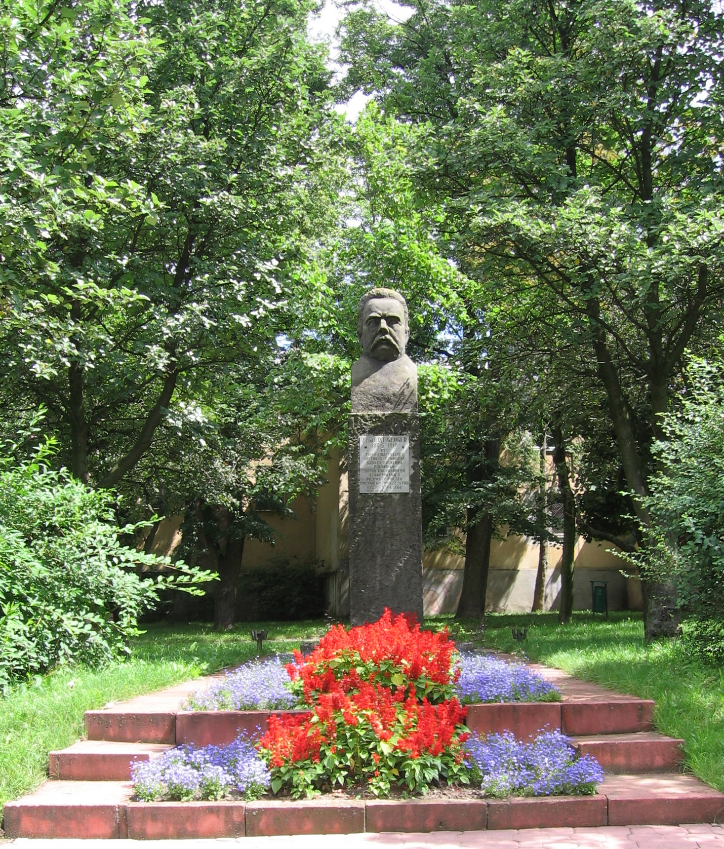 Monument of Zygmunt Gloger in Łomża Annotation on the monument: ZYGMUNT GLOGER 1845-1910. Son of Łomża Land. Historian-ethnographer, Polish folklore explorer, author of the Old Polish encyclopaedia, the first Polish Touring Association president. Łomża 1973.